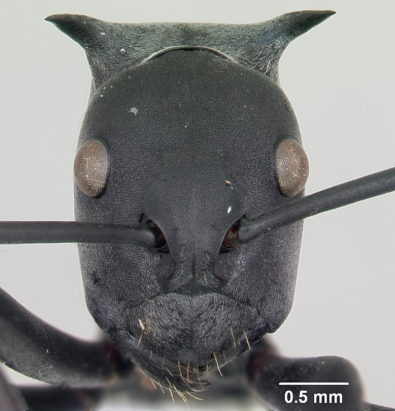 Head view of ant Polyrhachis browni specimen casent0103174.